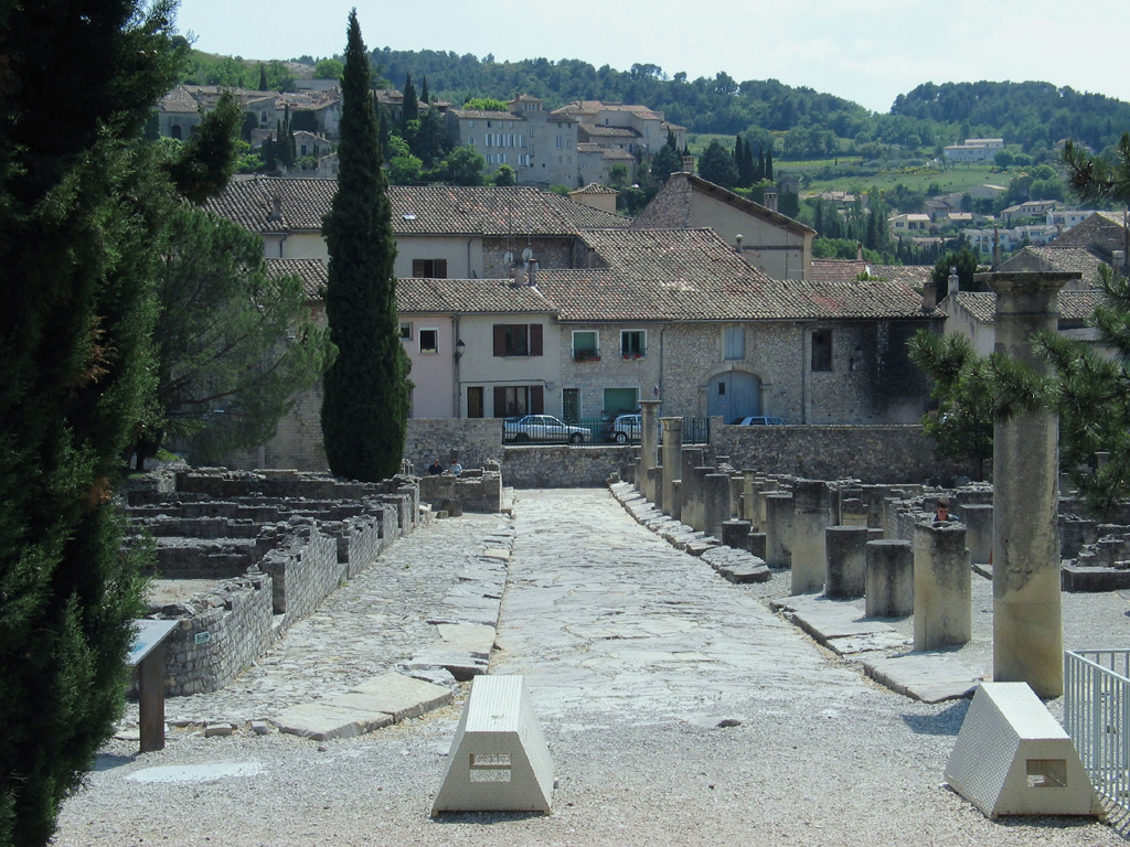 Village of Vaison-la-Romaine, located in the Departement of Vaucluse/France, area of roman excavations